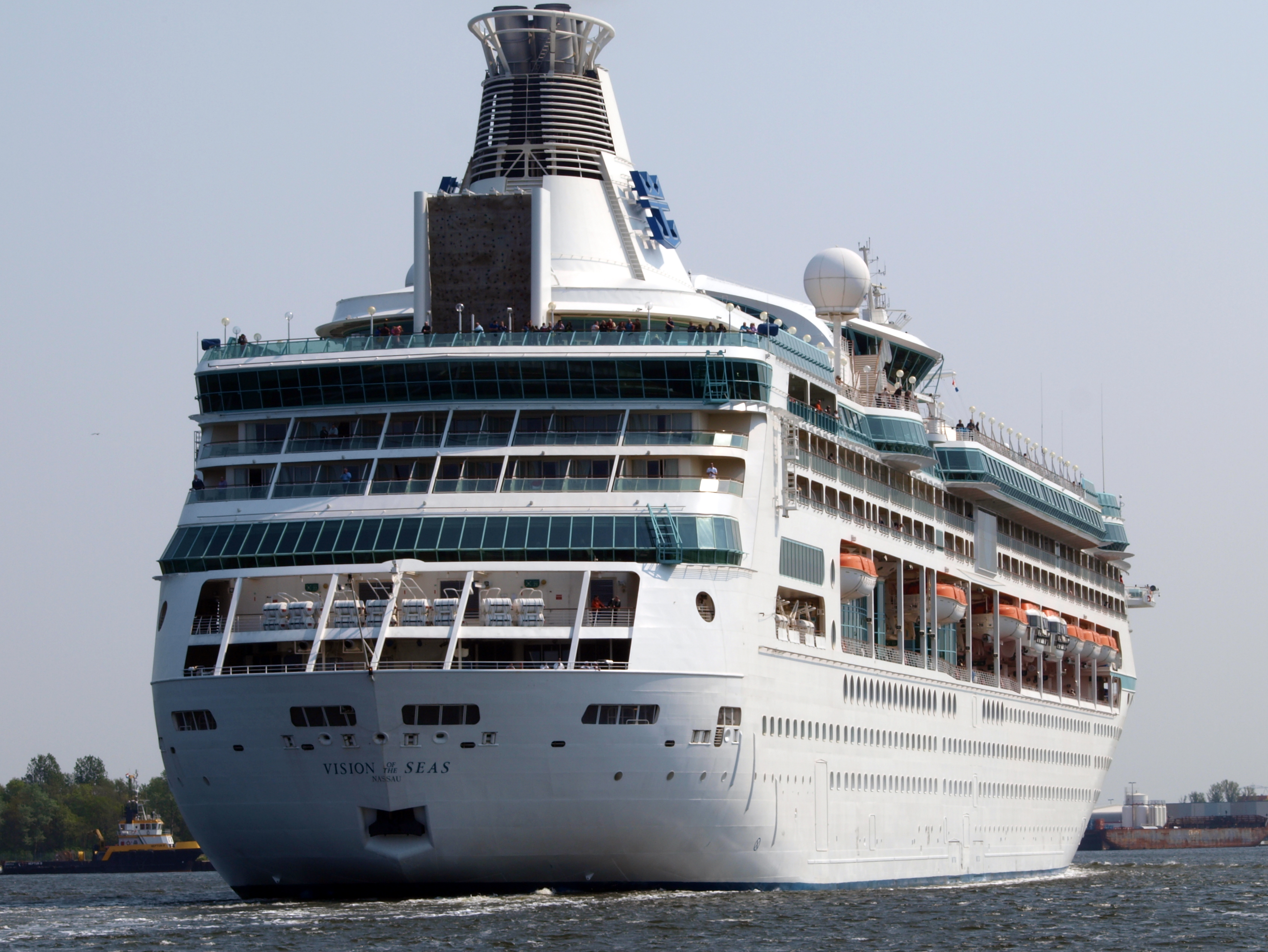 Photographed at the Port of Amsterdam, IJmuiden, The Netherlands.